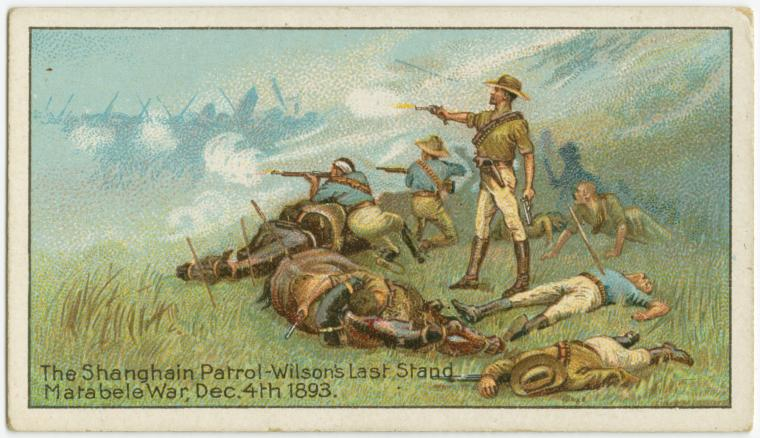 Cigarette card depicting Wilson's Last Stand, Shangani Patrol, 1893 Matabele War.